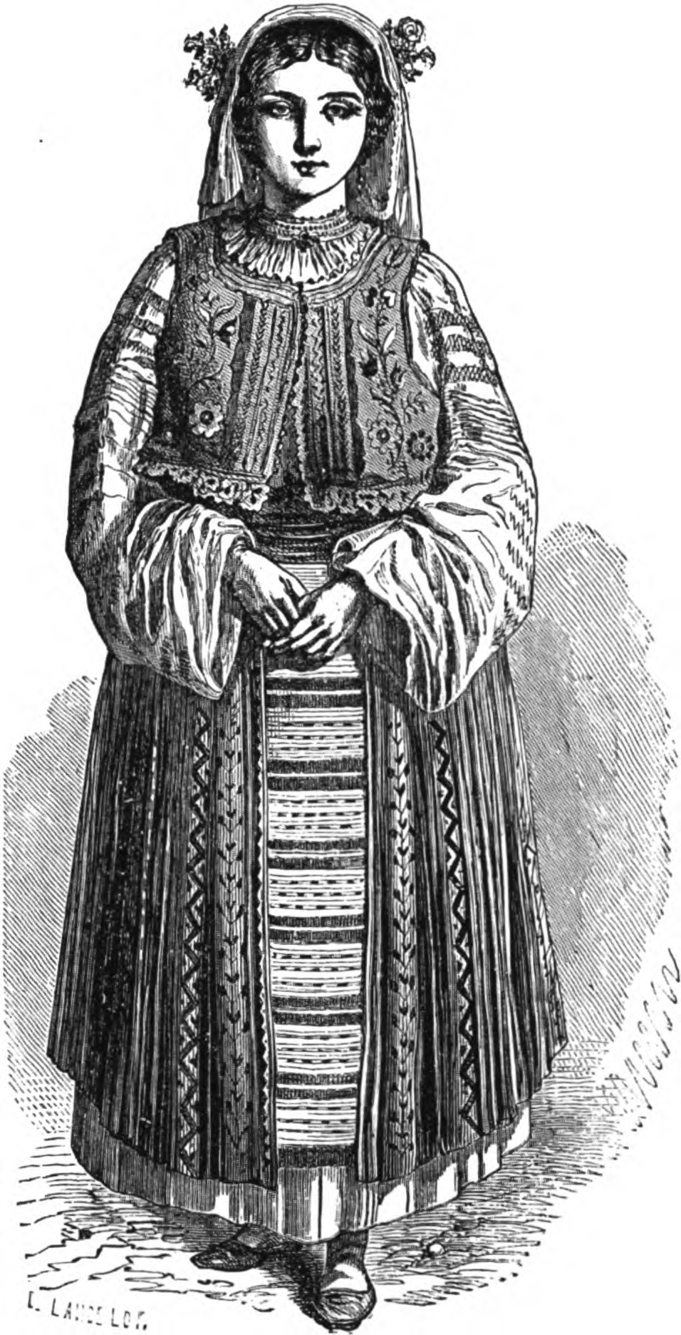 Wallachian female Vlachs peasant (1860).